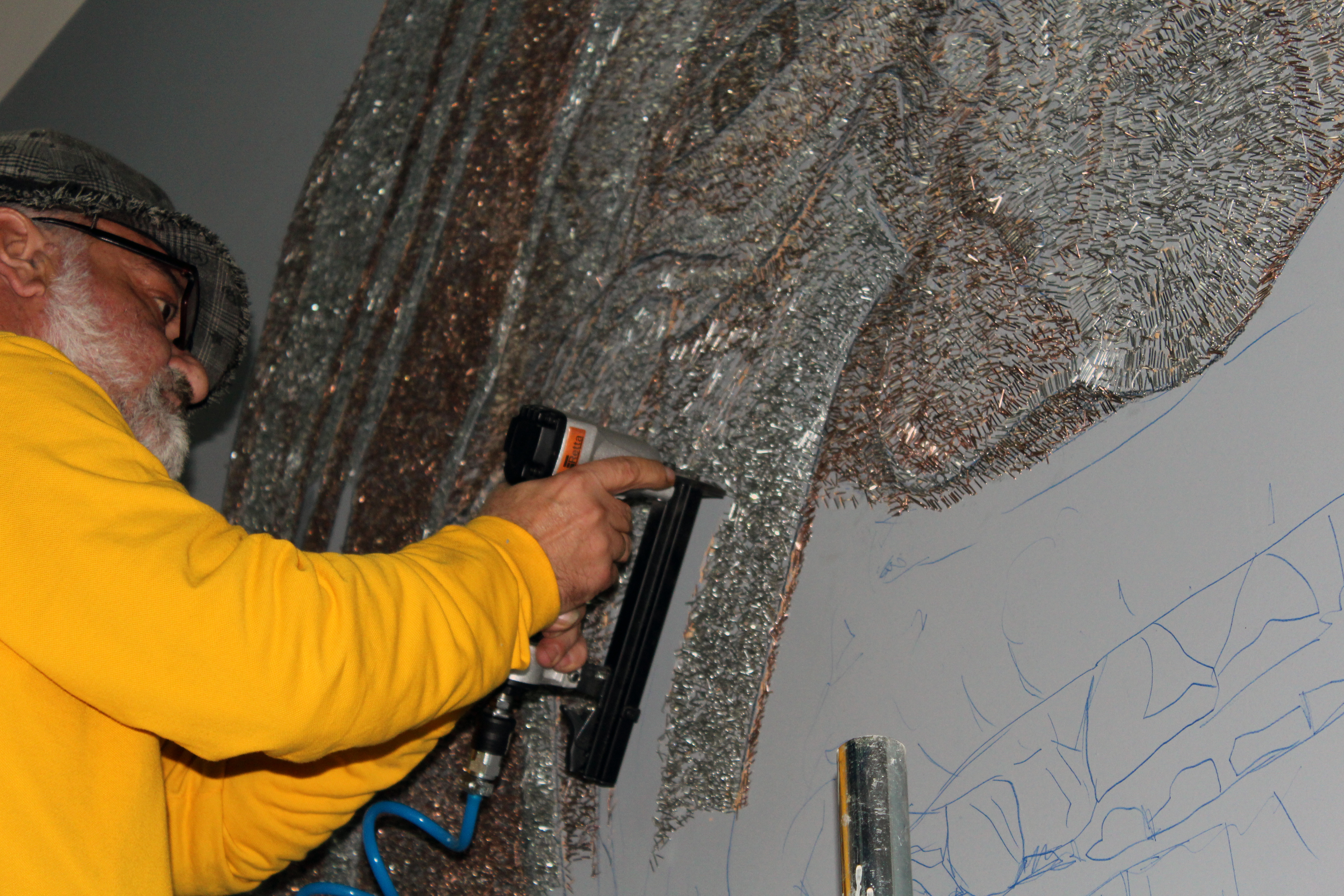 New Guinness World Record Attempt (10th) "The Largest Staples Structure" Subject : Saint " Mother Theresa " Material : Staples